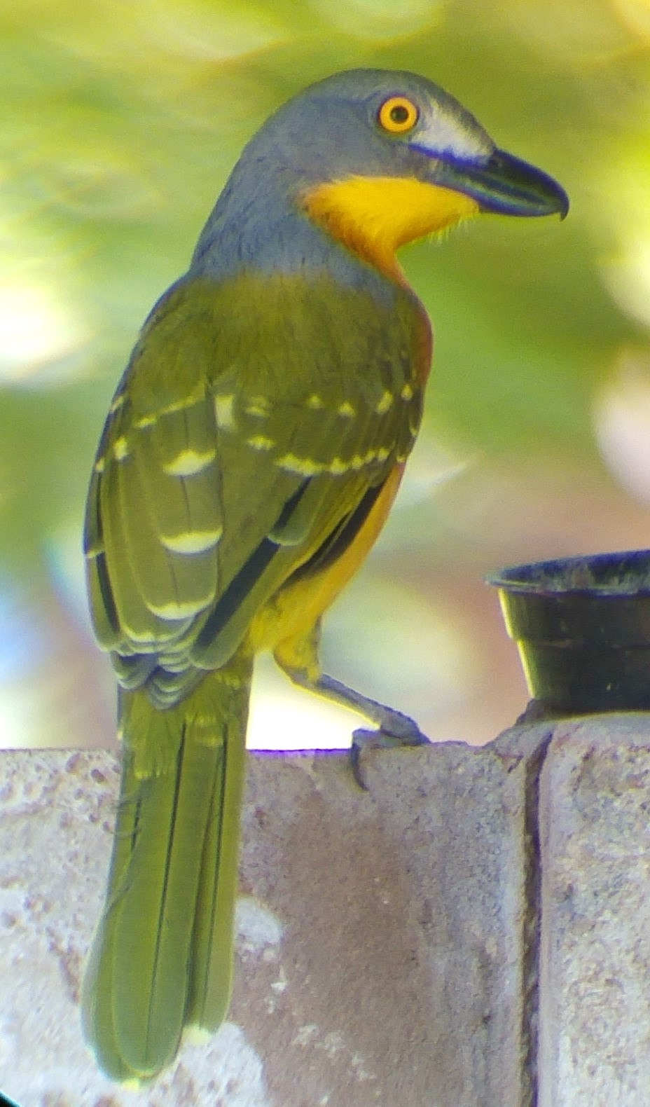 Grey-headed bush shrike